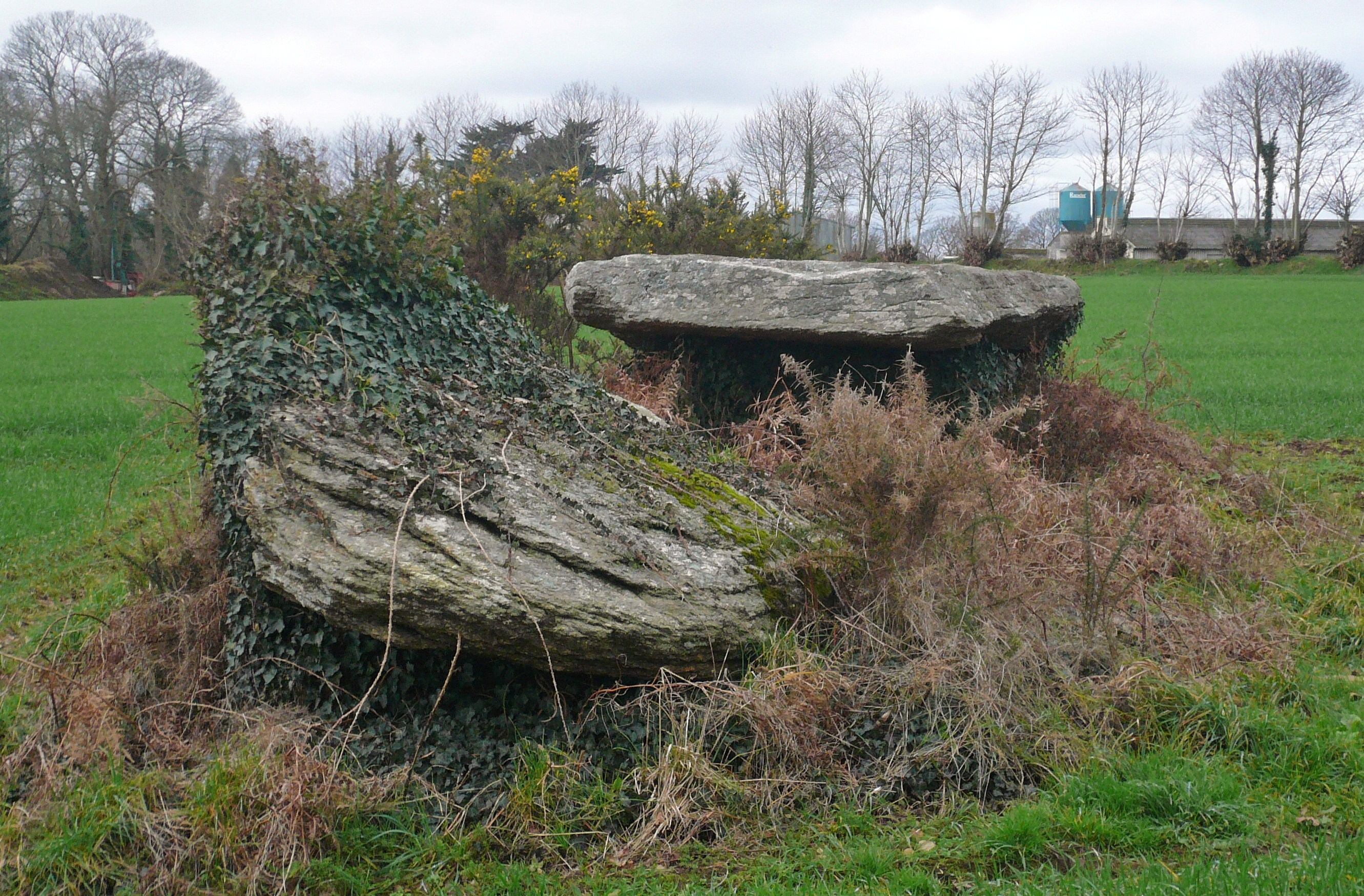 Dolmens of Luzuen - Park-Rouzika in Nizon, city of Pont-Aven, Finistère, Brittany, France.